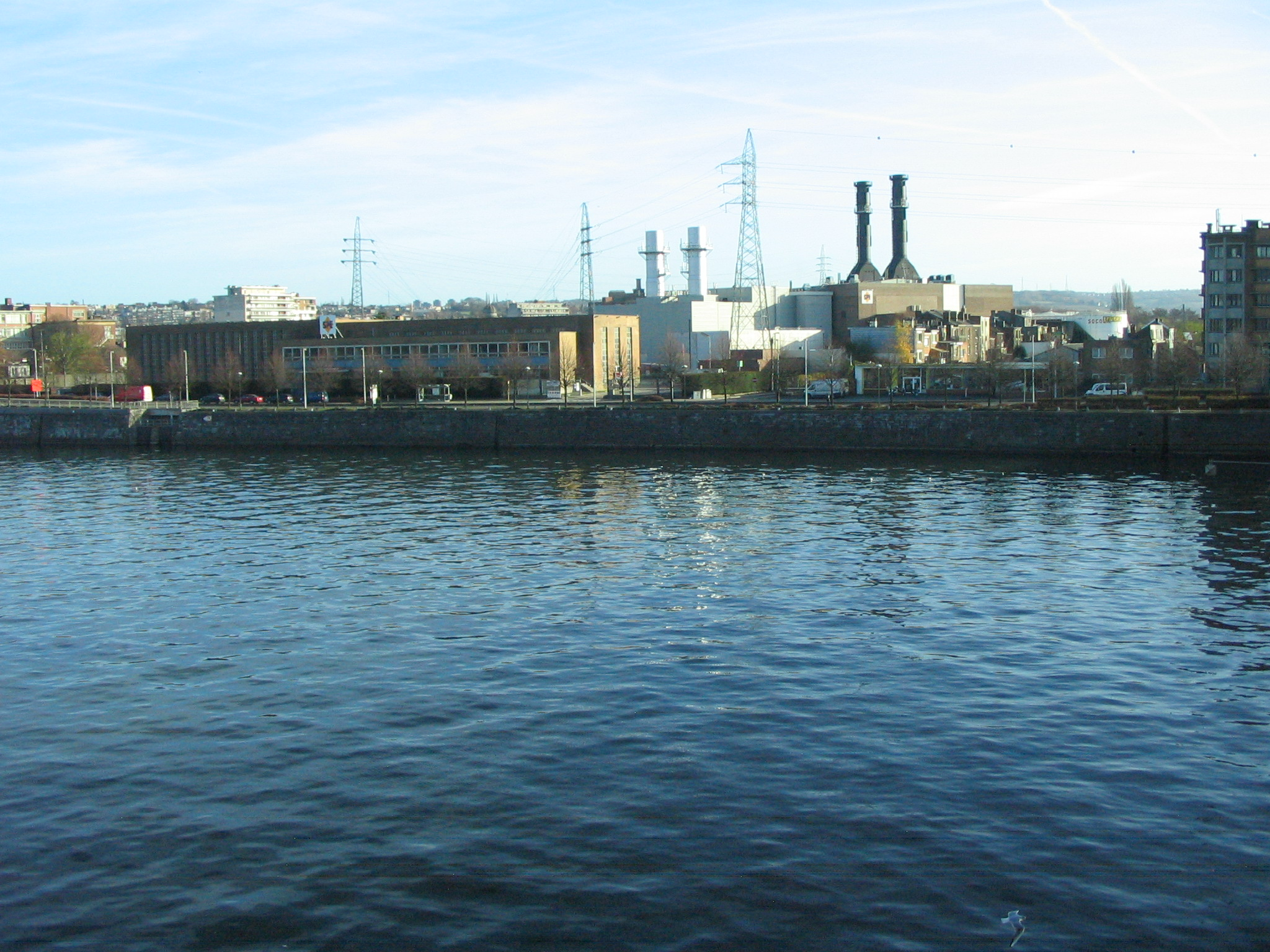 Electricity production in Angleur (Liège) (gaz turbine)